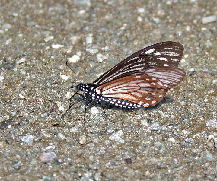 Lesser Mime Chilasa epycides at Samsing in Darjeeling district of West Bengal, India.